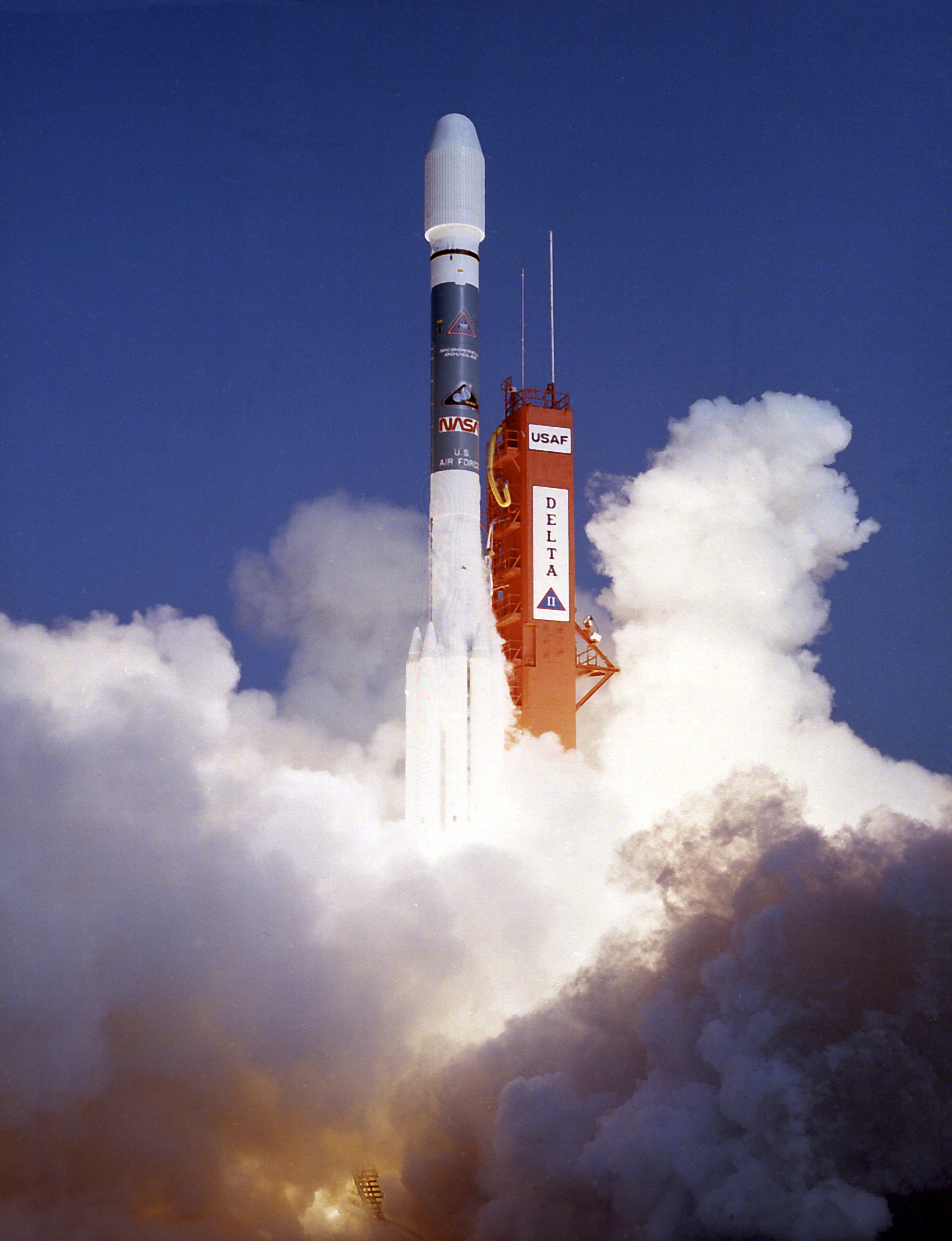 The Delta II expendable launch vehicle with the ROSAT (Roentgen Satellite), cooperative space X-ray astronomy mission between NASA, Germany and United Kingdom, was launched from the Cape Canaveral Air Force Station on June 1, 1990.